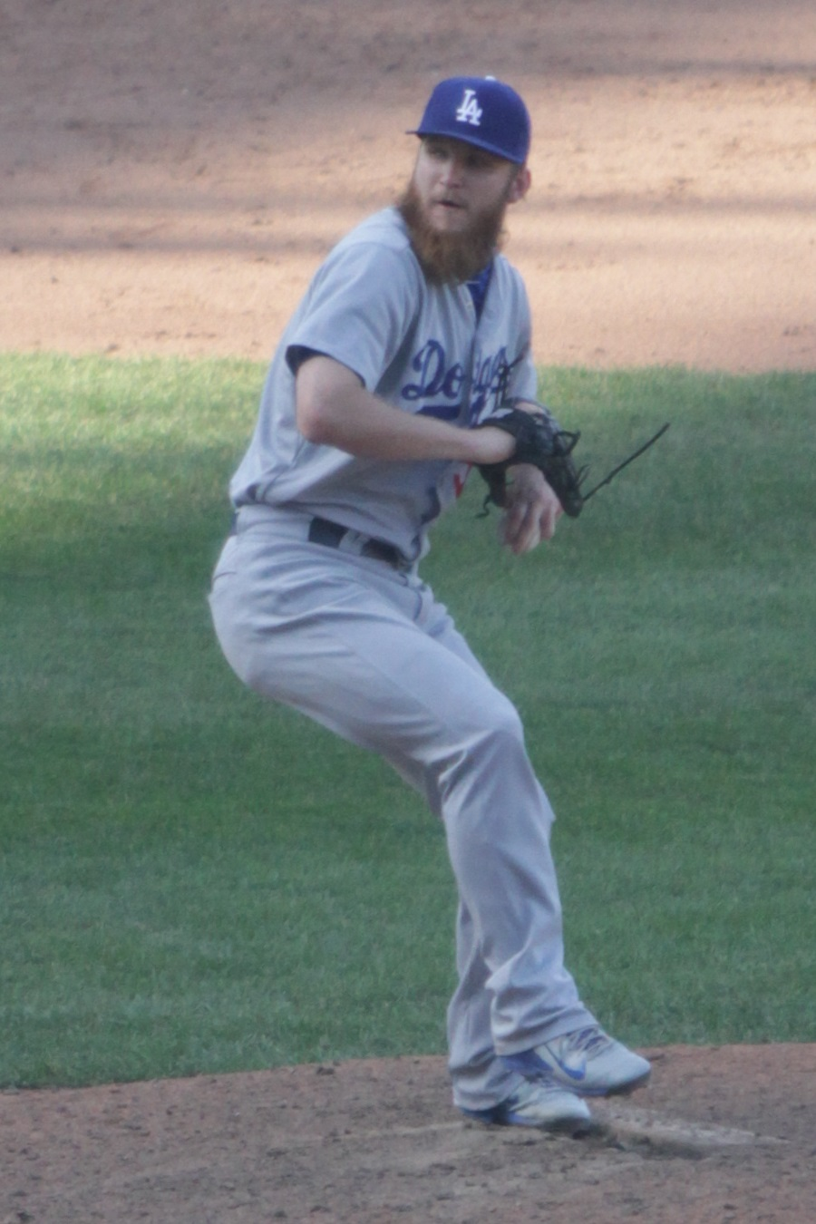 J. P. Howell for the 2014 Los Angeles Dodgers against the 2014 Chicago Cubs at Wrigley Field.